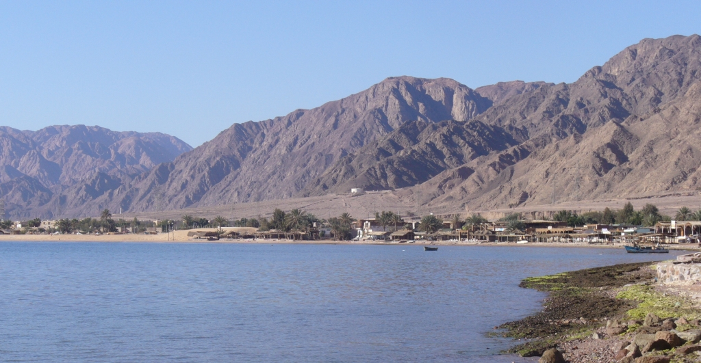 view of coast, Nuweiba Tarabeen, South Sinai, Egypt